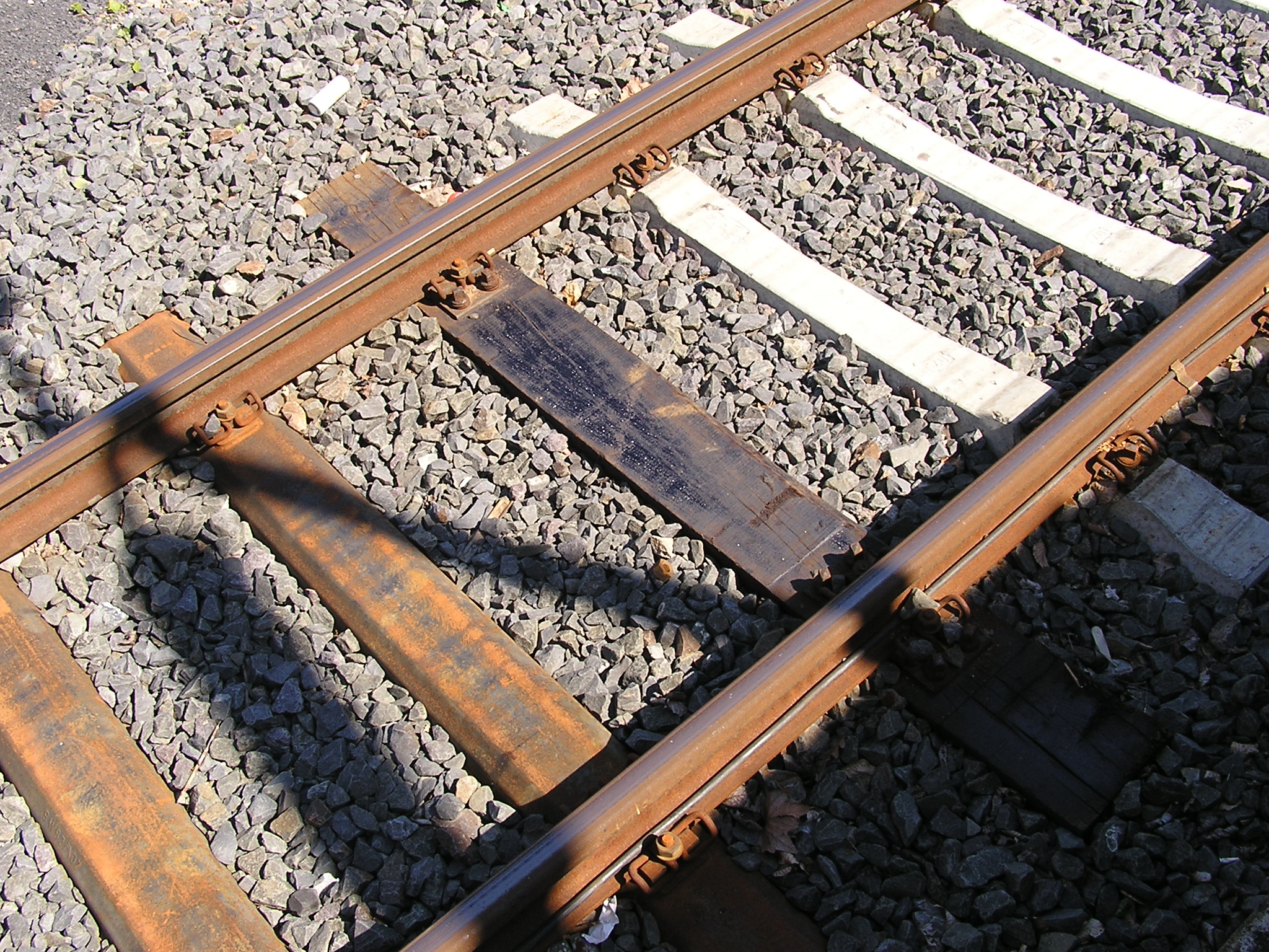 Railroad ties of (from left to right) steel, wood and concrete in the station Friedrichsdorf.